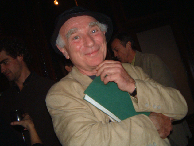 Personal snapshot of theatrical phenomenon Ken Campbell, taken by Richard Adams